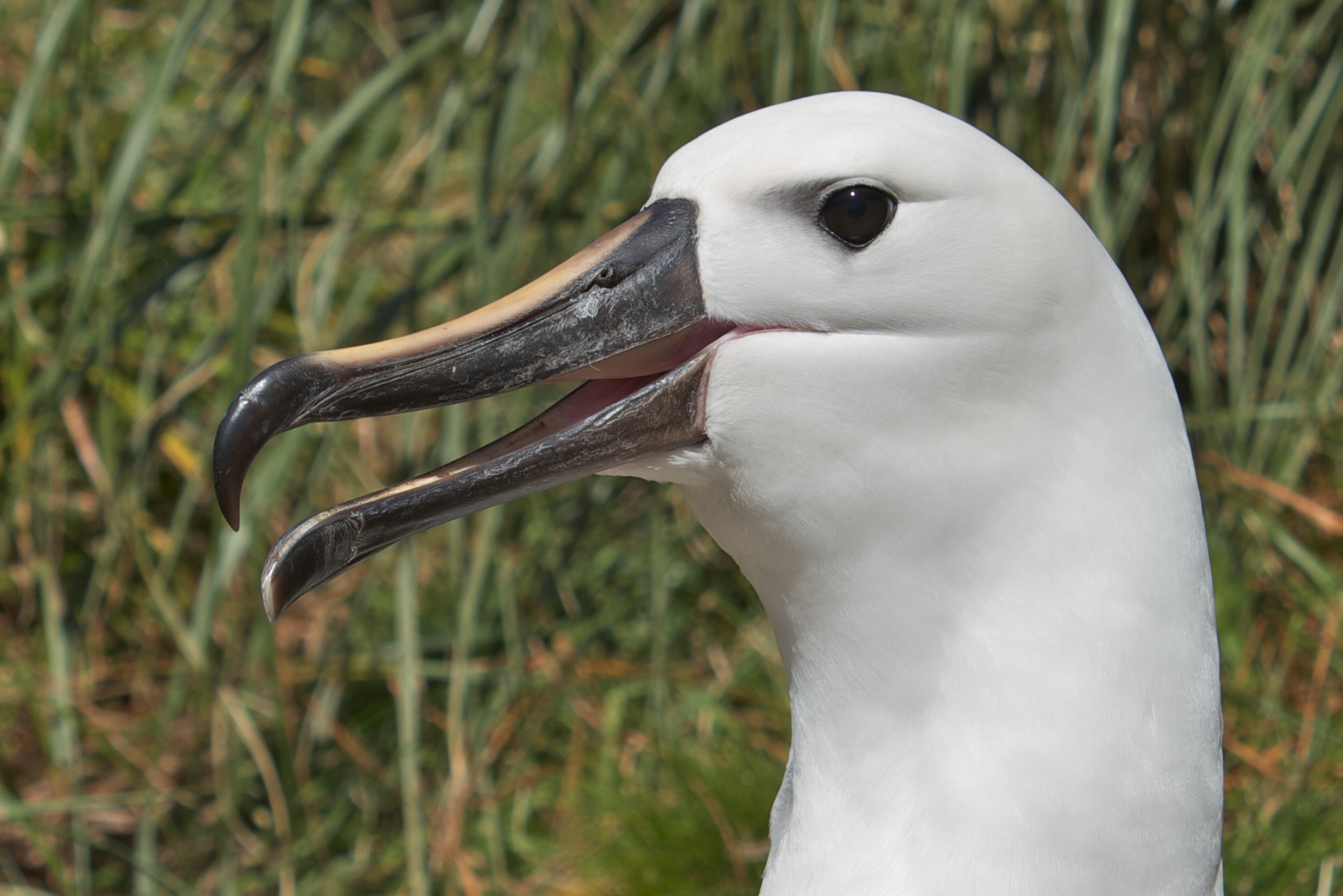 Yellow-nosed albatross